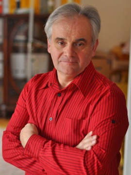 Ádám György Kiss portrait